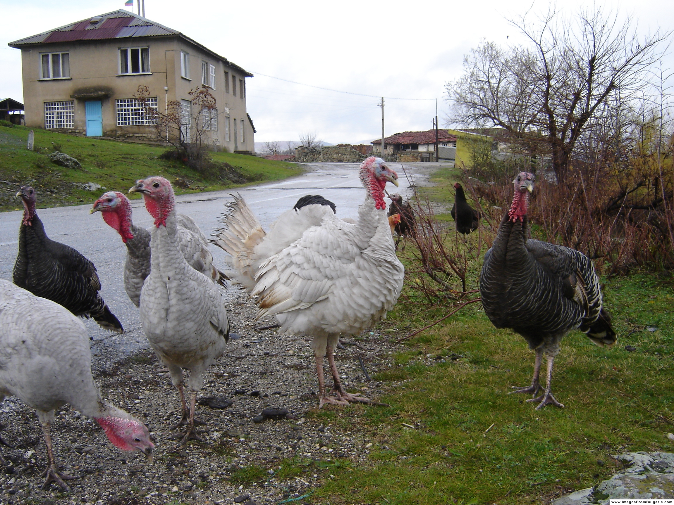 Turkeys in the village of Dzhanka, Bulgaria